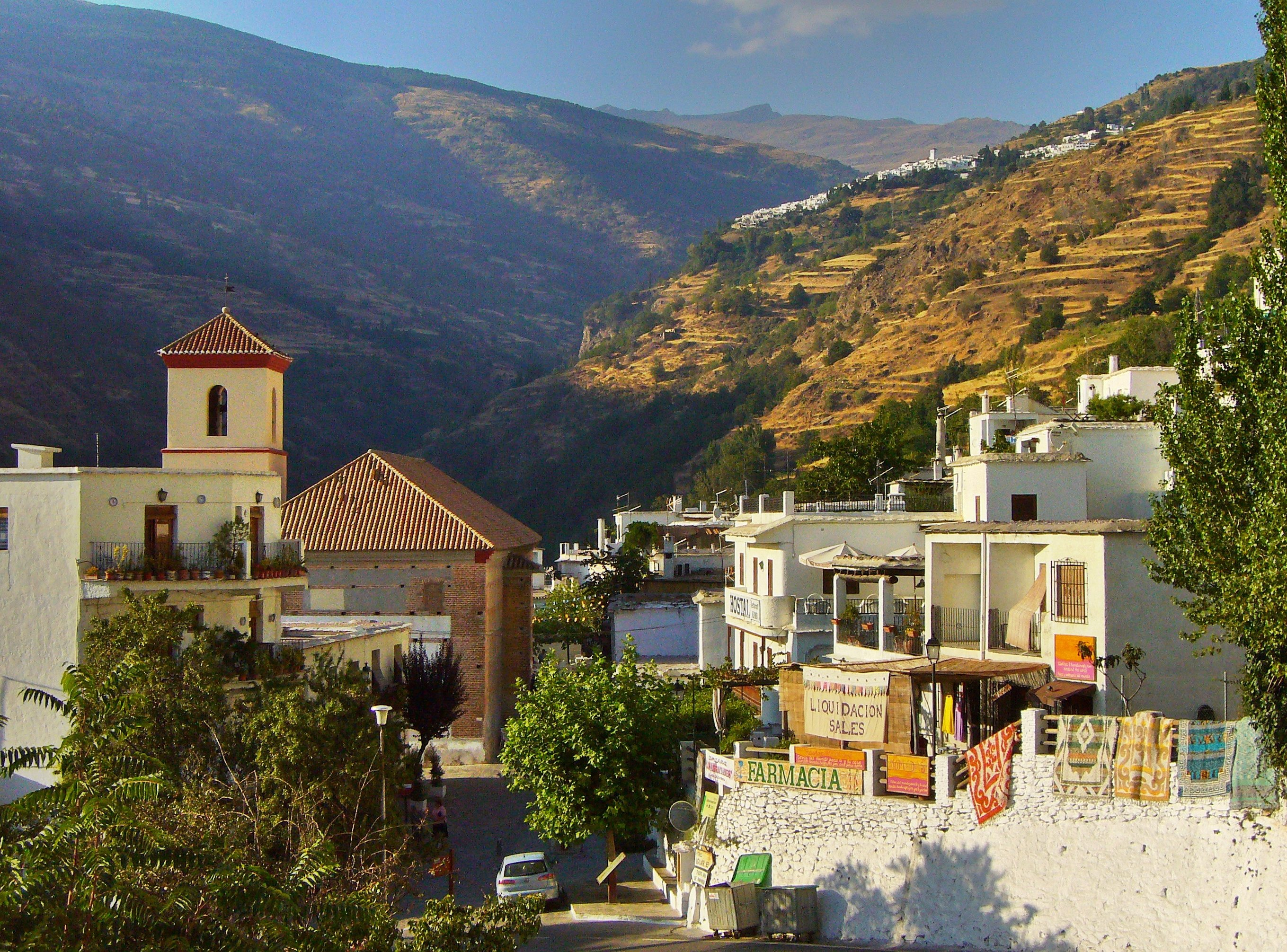 General view of Pampaneira